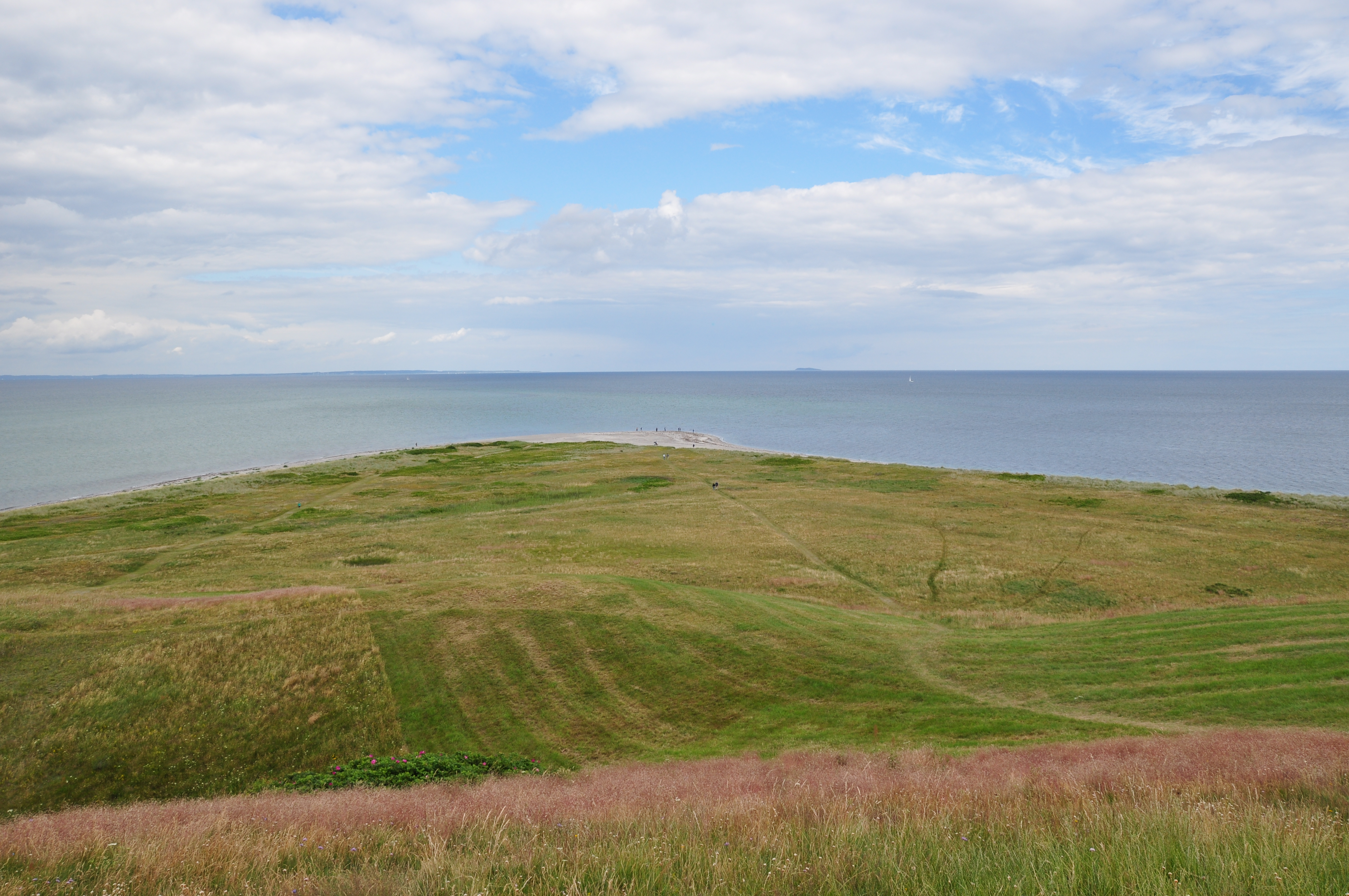 Issehoved, the northernmost point of the Danish island of Samsø, viewed from Telegrafbakken. The coast of Mols and the small island of Hjelm can be glimpsed in the horizon.